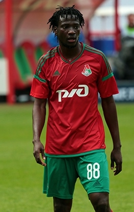 Delvin Ndinga